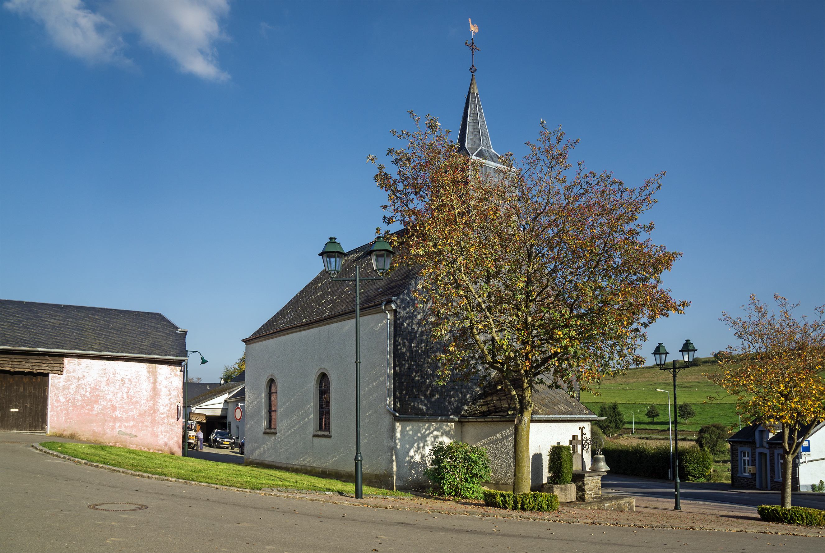 Chapel of Breidfeld